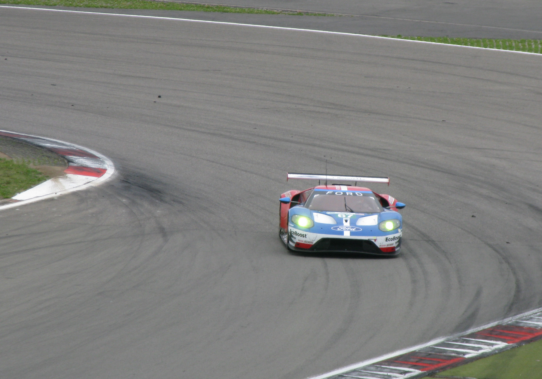 67 Ford GT of Ford Chip Ganassi Team UK.